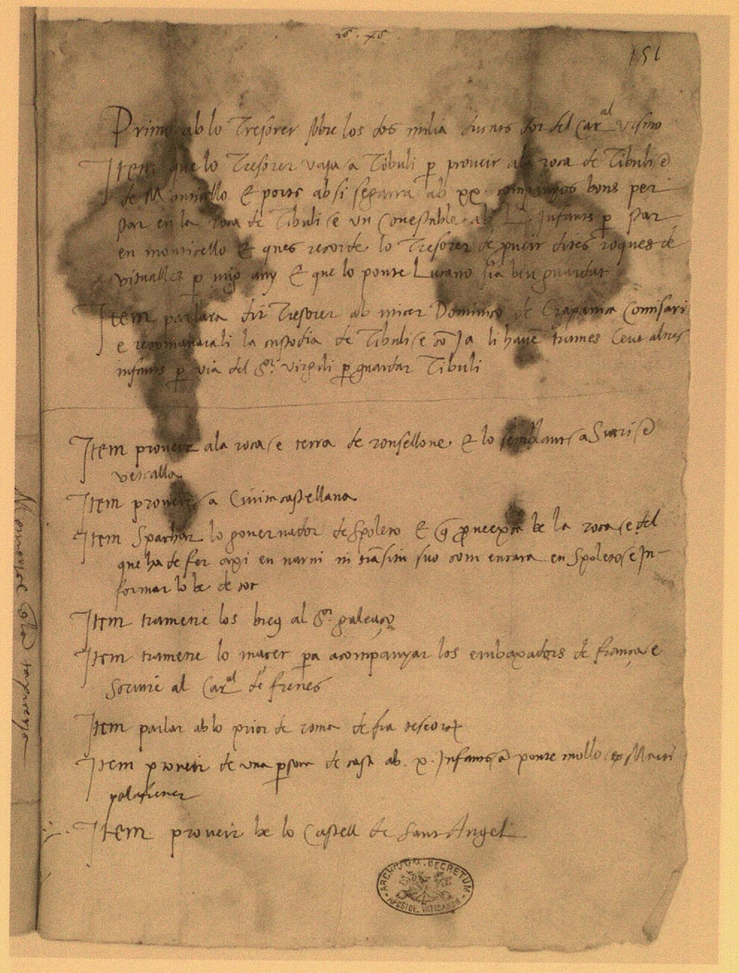 Autograph notes of Pope Alexander VI concerning military preparations in the Papal States before the French invasion of 1494. Archivio Segreto Vaticano, Archivum Arcis, Arm. I–XVIII, 5024, fol. 151r.